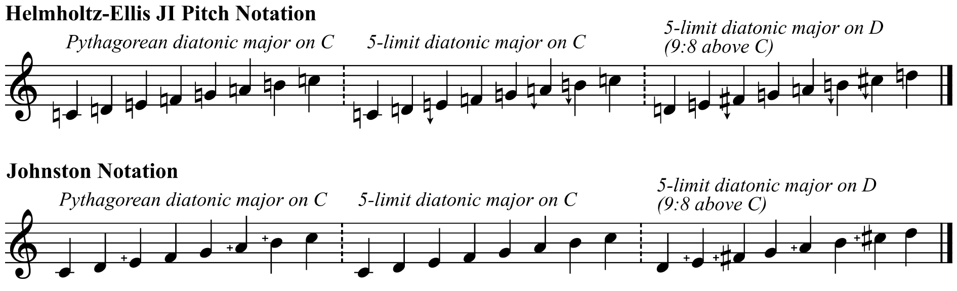 Comparison of Helmholtz-Ellis and Johnston notations.